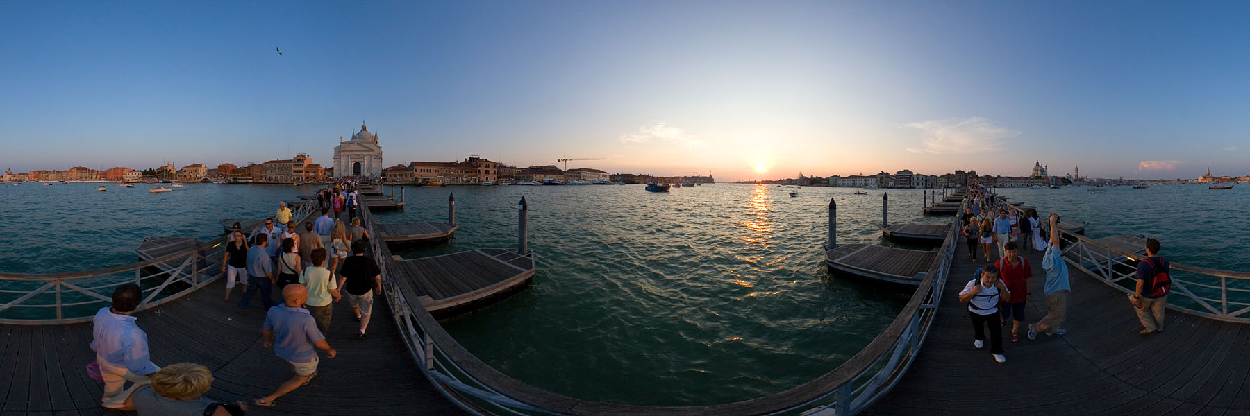 During Festa del Redentore in Venice a pontoon bridge connects Zattere to Giudecca in a ritual that dates back to the festival's origins after the end of the plague of 1576. Panorama by Roger Howard